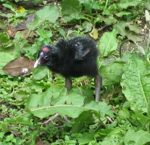 Porphyrio porphyrio melanotus chick